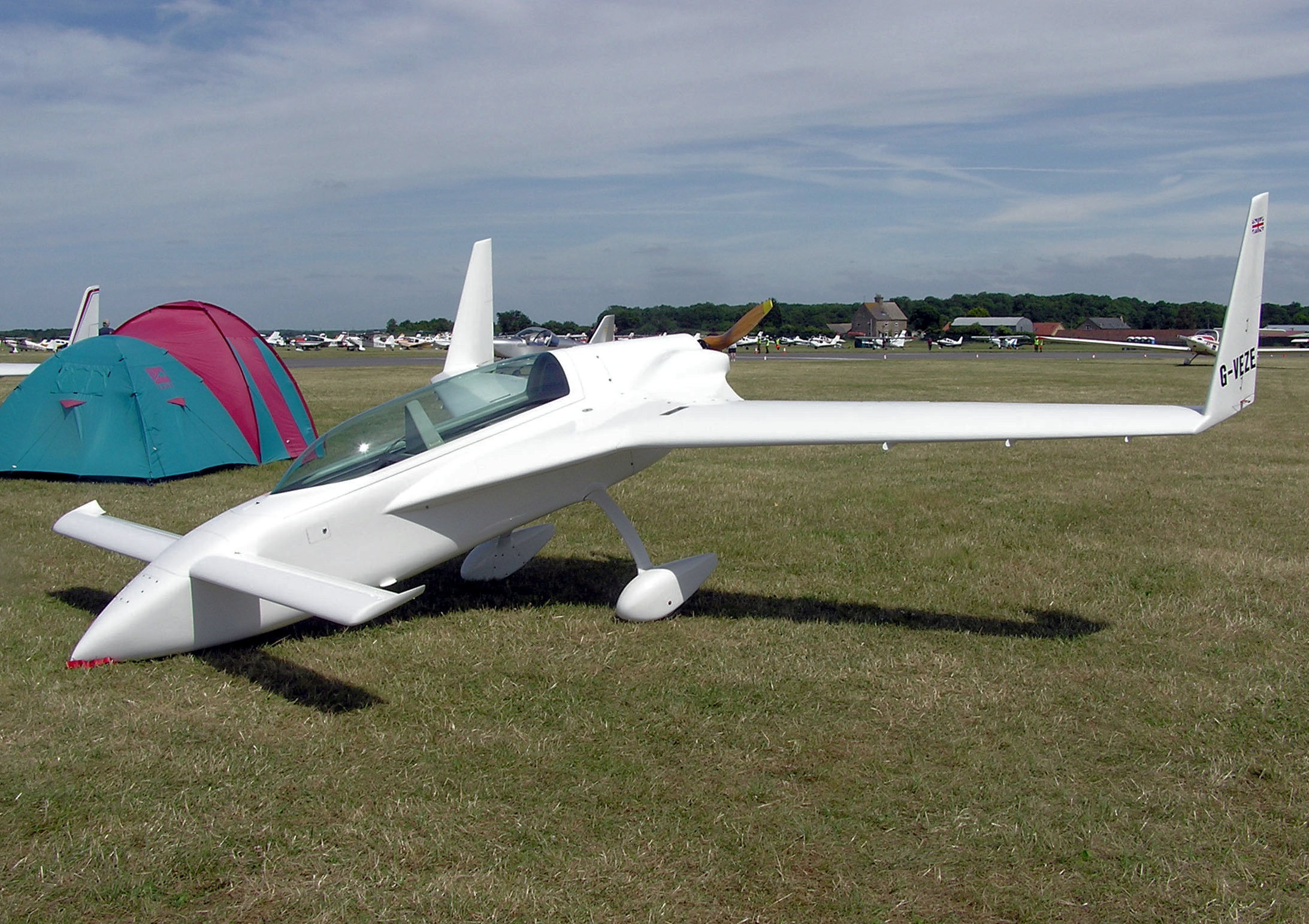 Rutan VariEze (UK registration G-VEZE) at Kemble Airfield, Gloucestershire, England. Note: the nose undercarriage has not collapsed! This is a normal way to park a VariEze (with the undercarriage retracted).